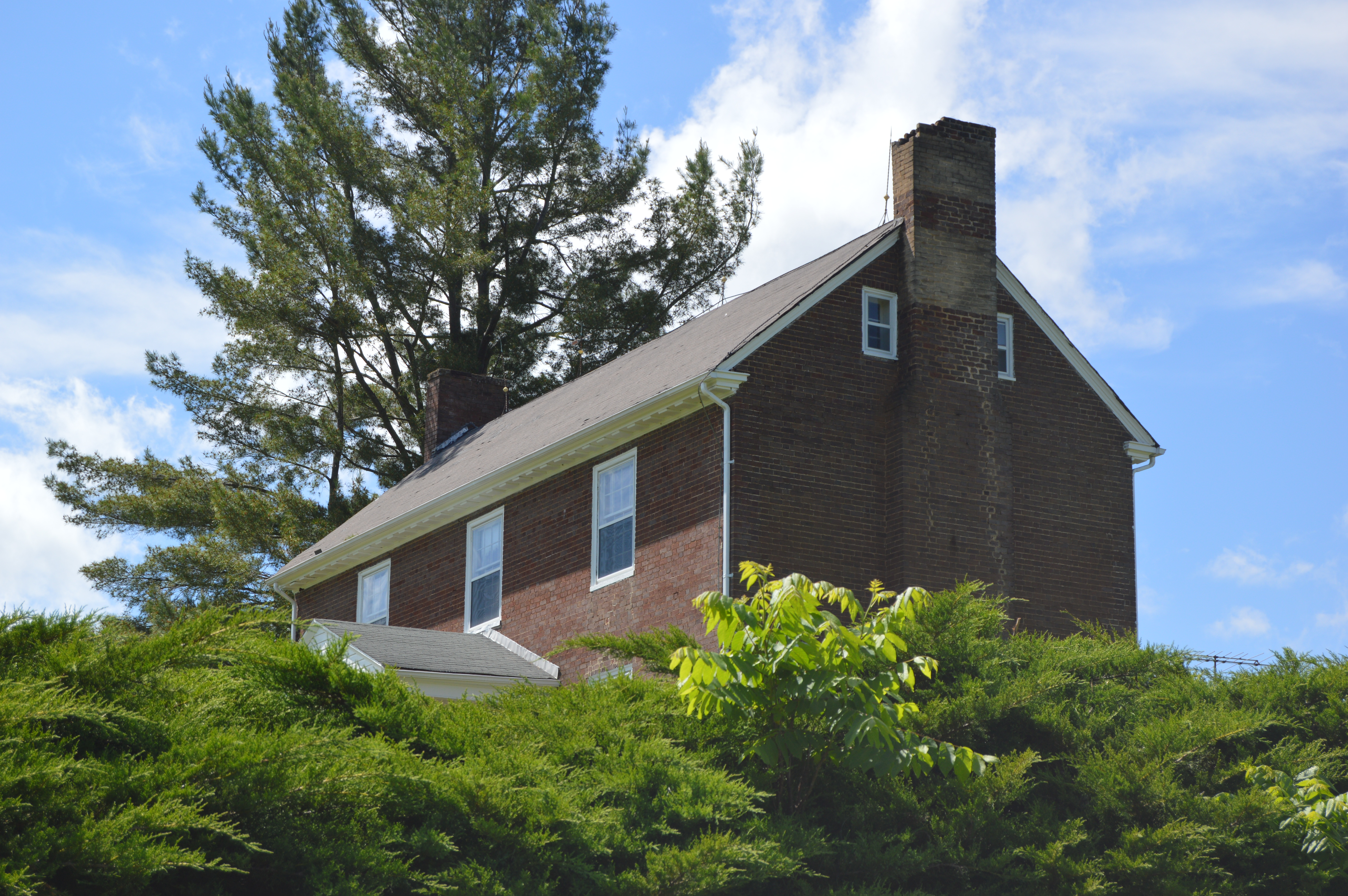 Southern side and eastern end of the Finney-Lee House (now occupied by a Southern Baptist congregation, Covenant Community Church), located on Colonel Lee Road northeast of Collinsville in Franklin County, Virginia, United States. Built in 1839, it is listed on the National Register of Historic Places.